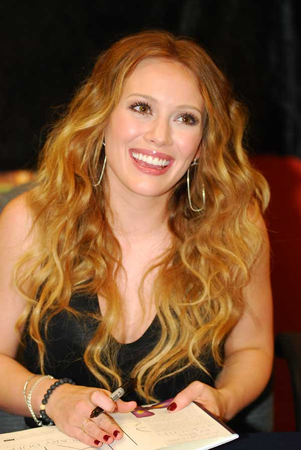 Hilary Duff signs copies of her book at Anderson Book Shop in Naperville, IL, USA on October 16, 2010. Photo by Adam Bielawski